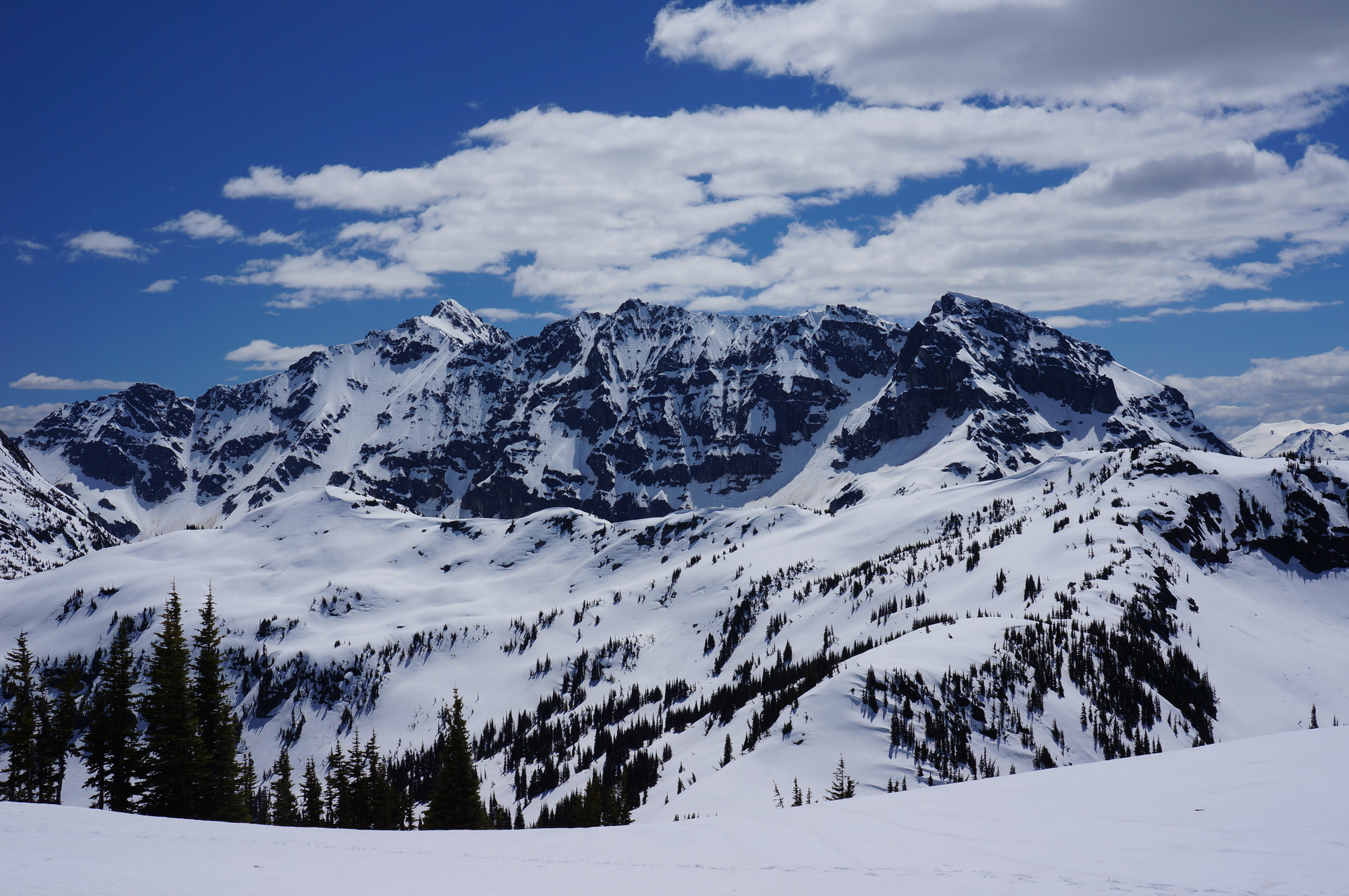 Fortress Mountain in North Cascades